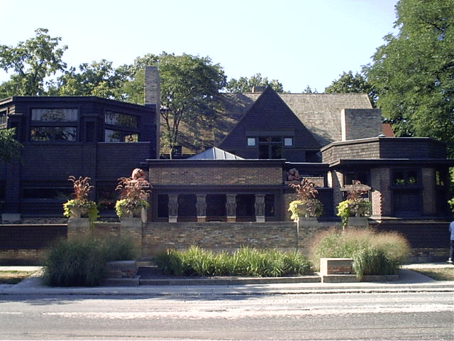 A view of the studio side of Frank Lloyd Wright's home and studio in Oak Park, Illinois.